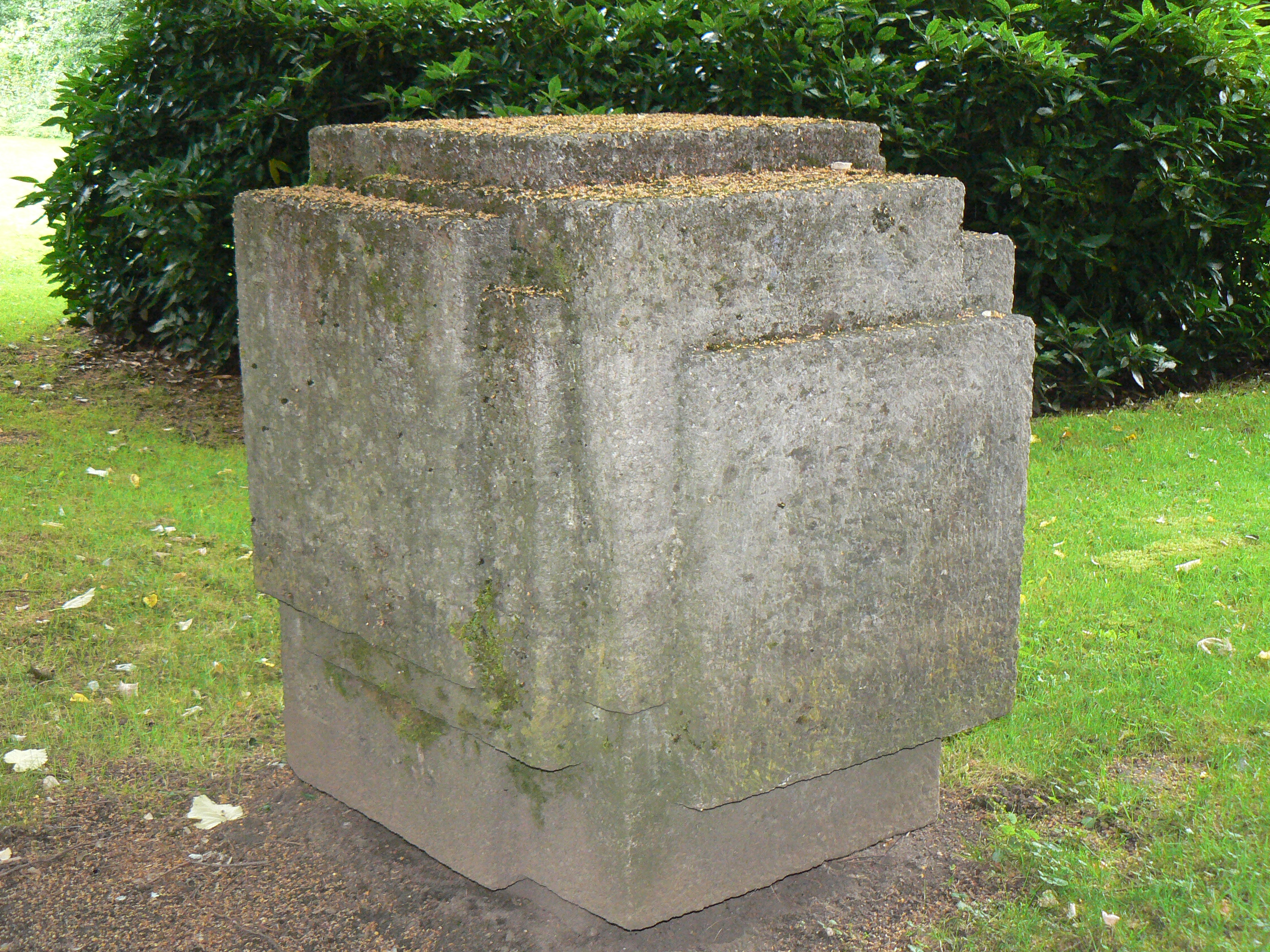 sculpture Quader-Skulptur (1965) by Hans Steinbrenner Quader Bottrop in Bottrop/Germany